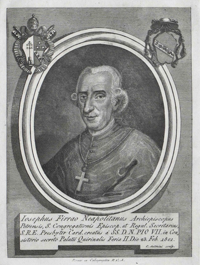 Kardinal Giuseppe Firrao (1736-1830)